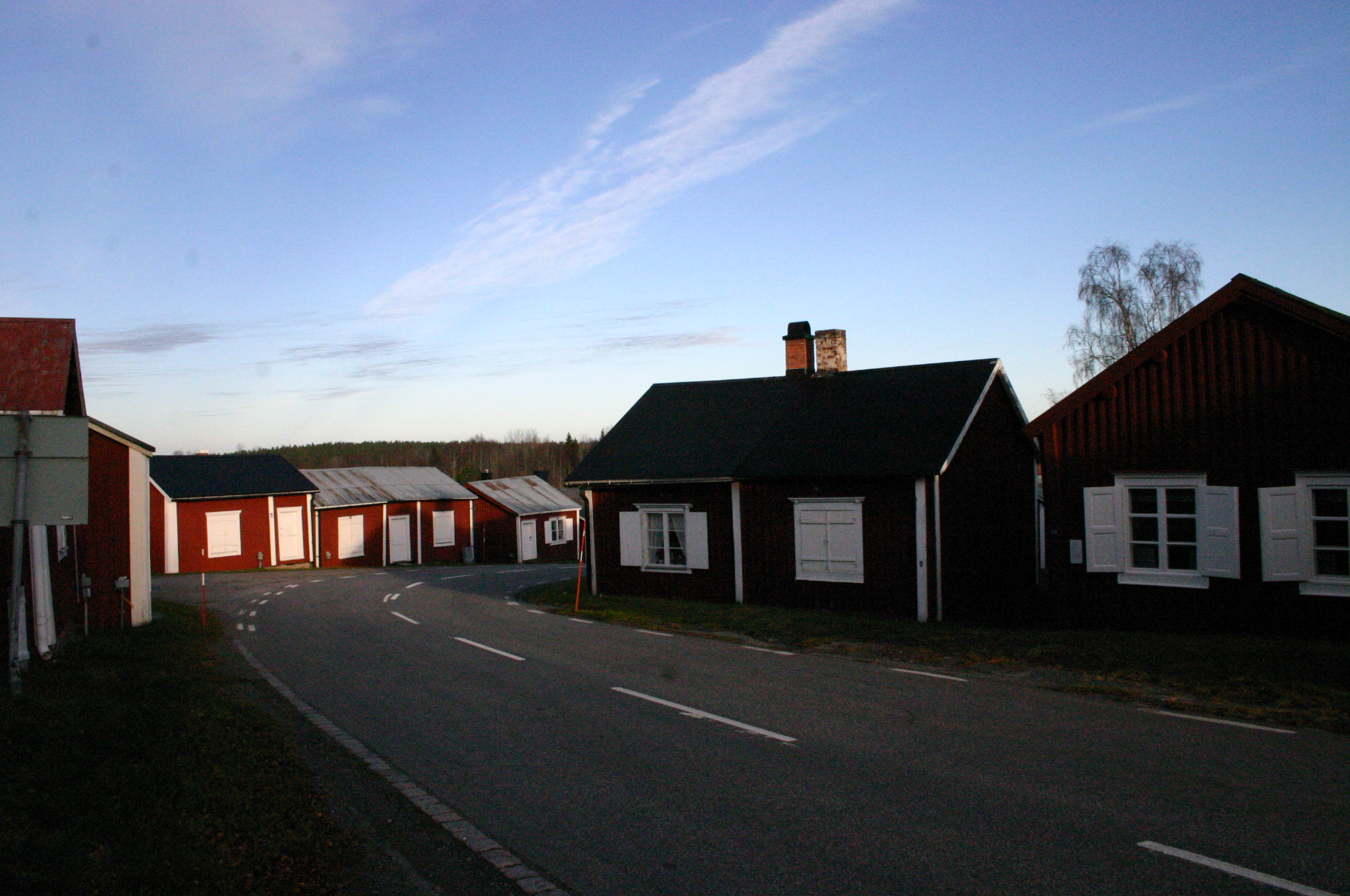 Description: Gammelstad Church Town (Gammelstad,Sweden) source: created on 18.10.2005 by Stephan Herz with Canon EOS 300D